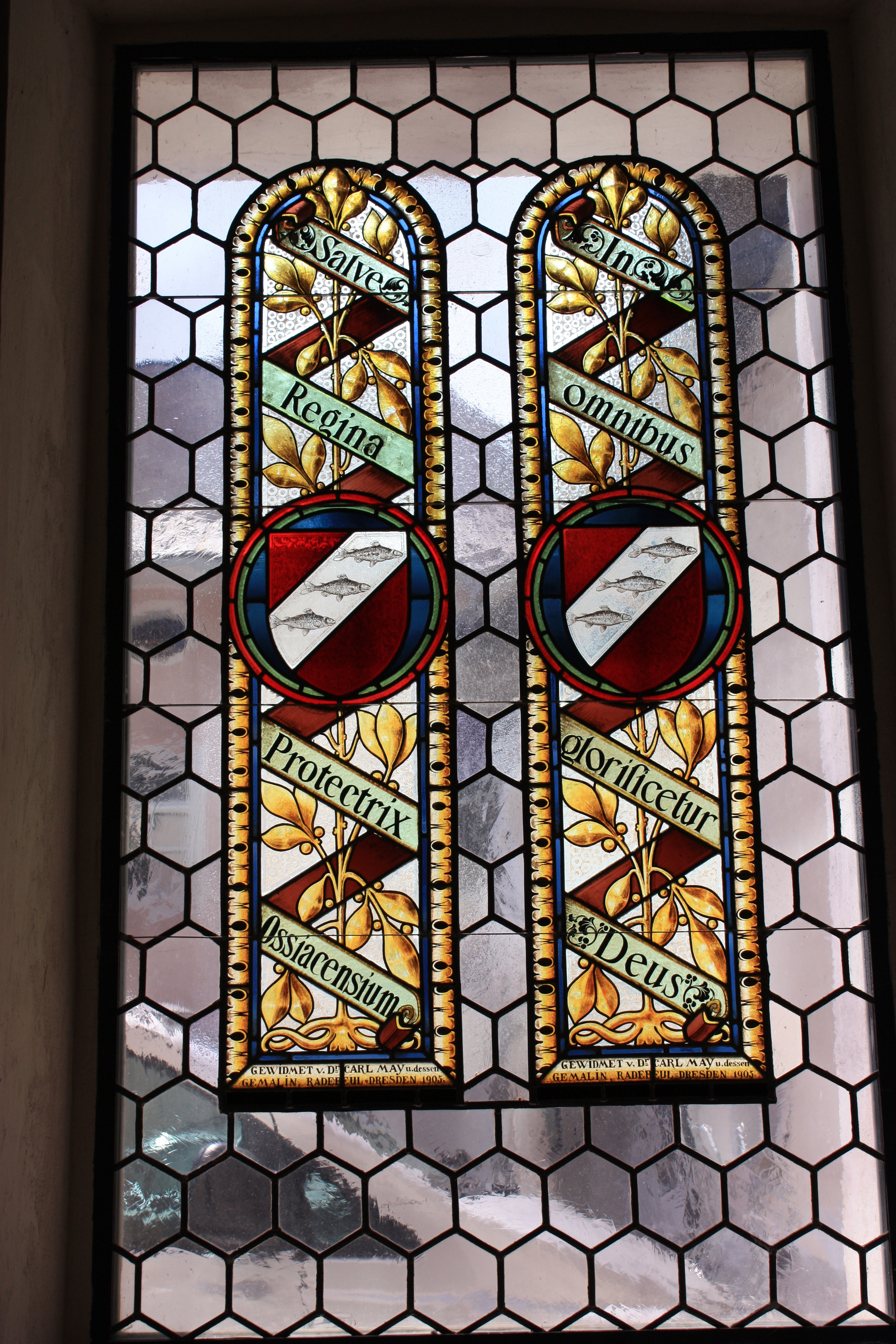 Monastery Ossiach - Window, founded byKal may Community:Ossiach District:Feldkirchen State:Carinthia Country:Austria